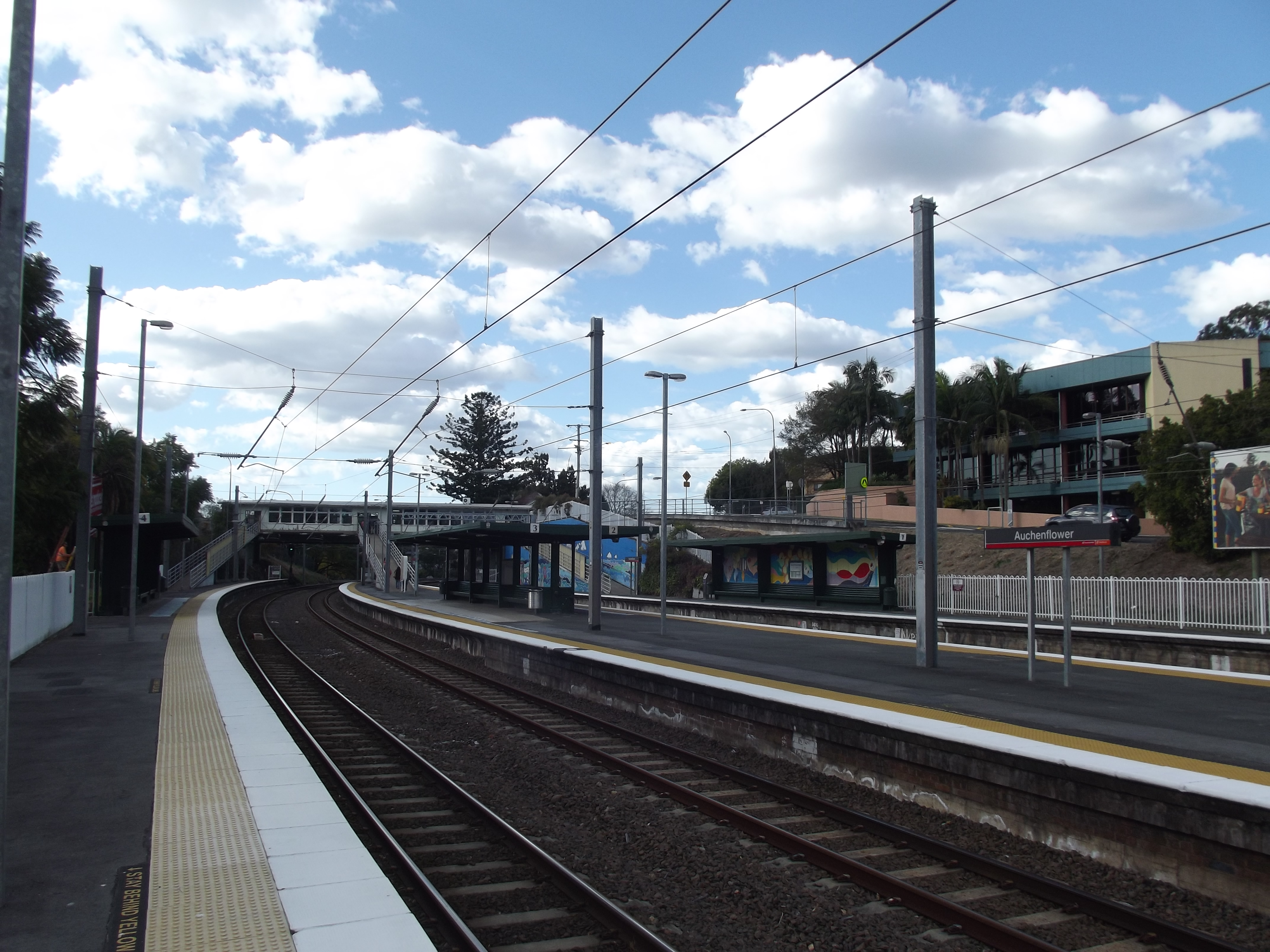 Auchenflower railway station, on the Ipswich/Richlands line.